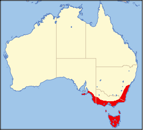 Australian range of Beautiful Firetail (Stagonopleura bella)